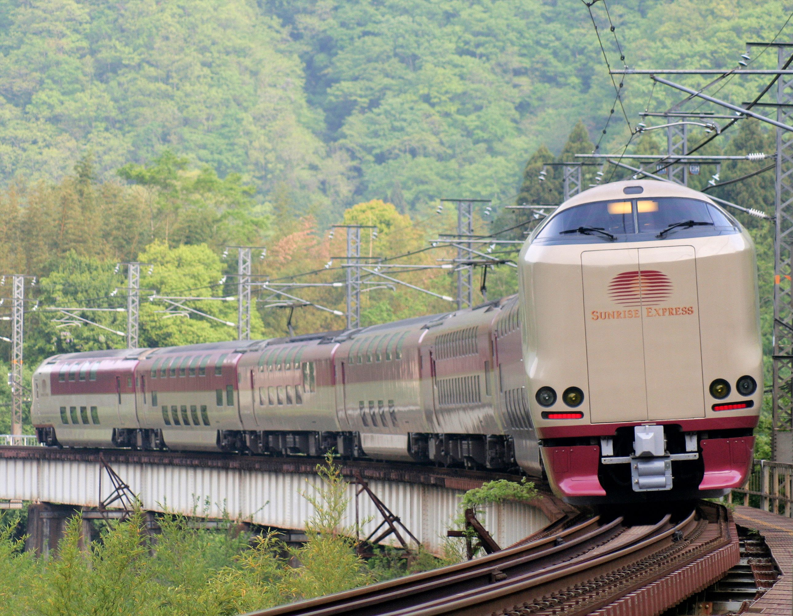 A JR West 285 series EMU on a Sunrise Izumo sleeping car service on the Hakubi Line